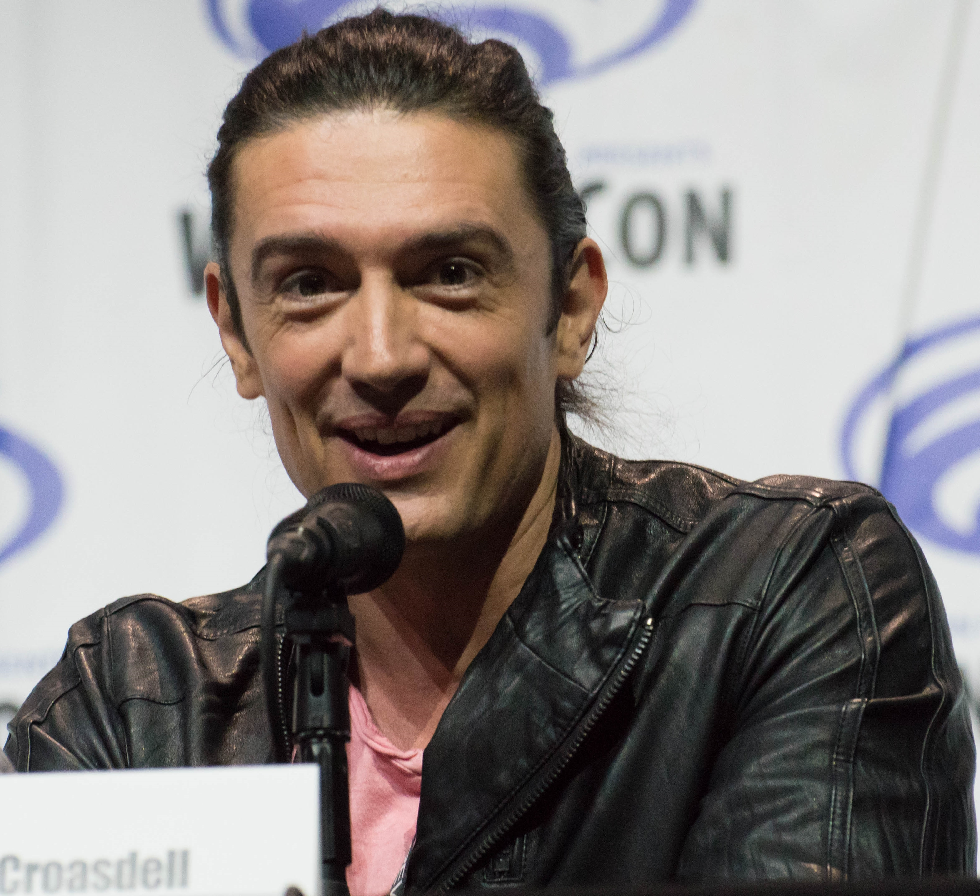 At WonderCon 2018